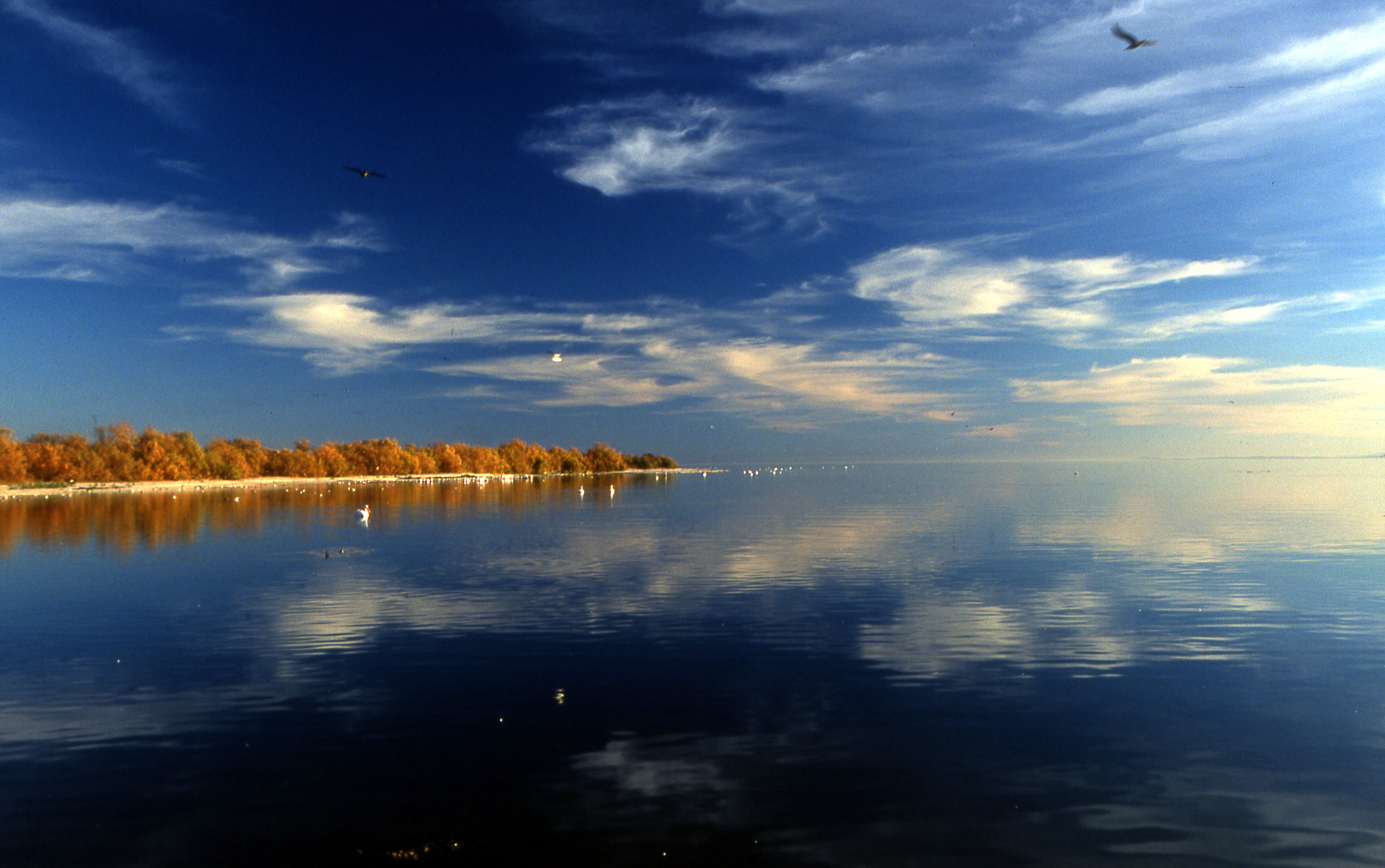 Photo of Salton Sea, in southern California